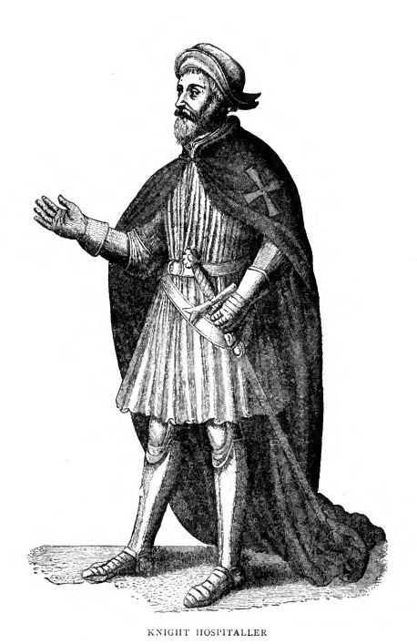 Published in London. Image of a Knight Hosptialler